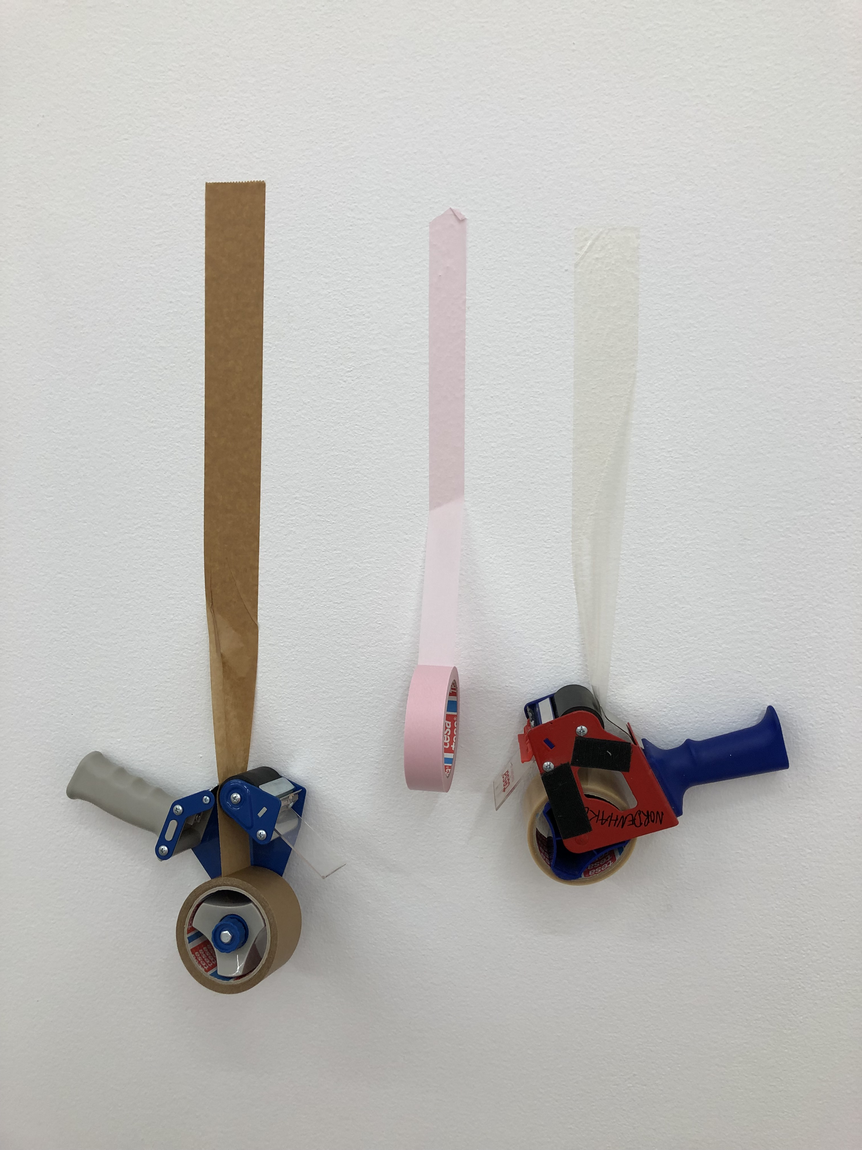 Three different tapes on a wall